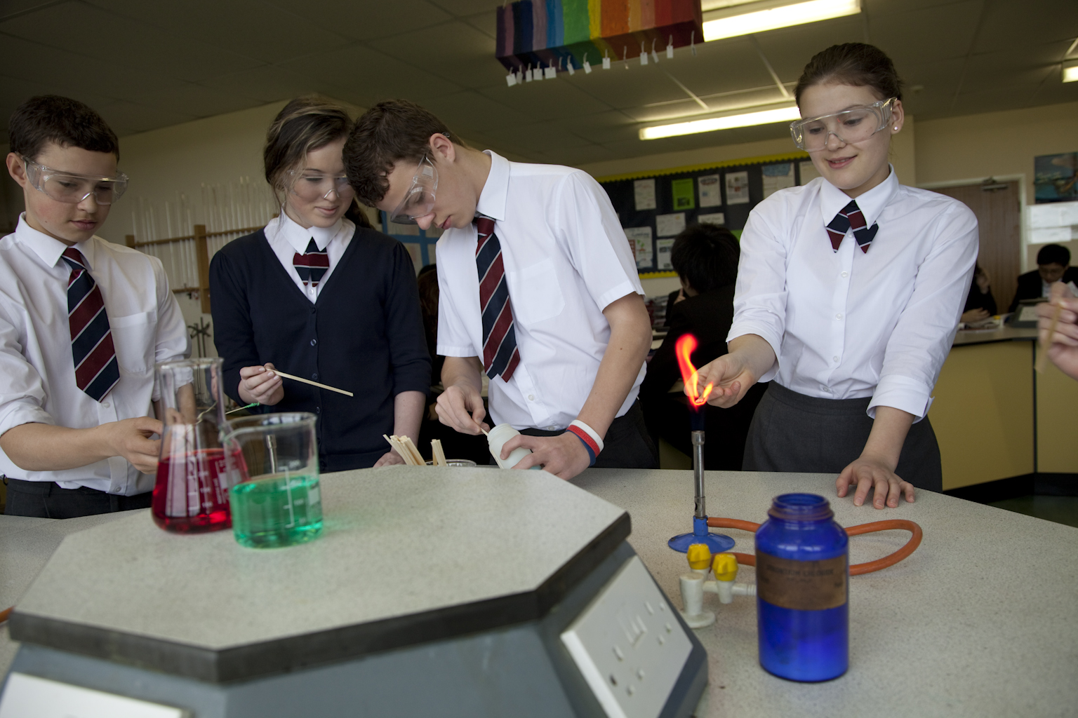 Chemistry Experiment Ruthin School, Mold Road, Ruthin, Denbighshire, Wales UK +441824 702543